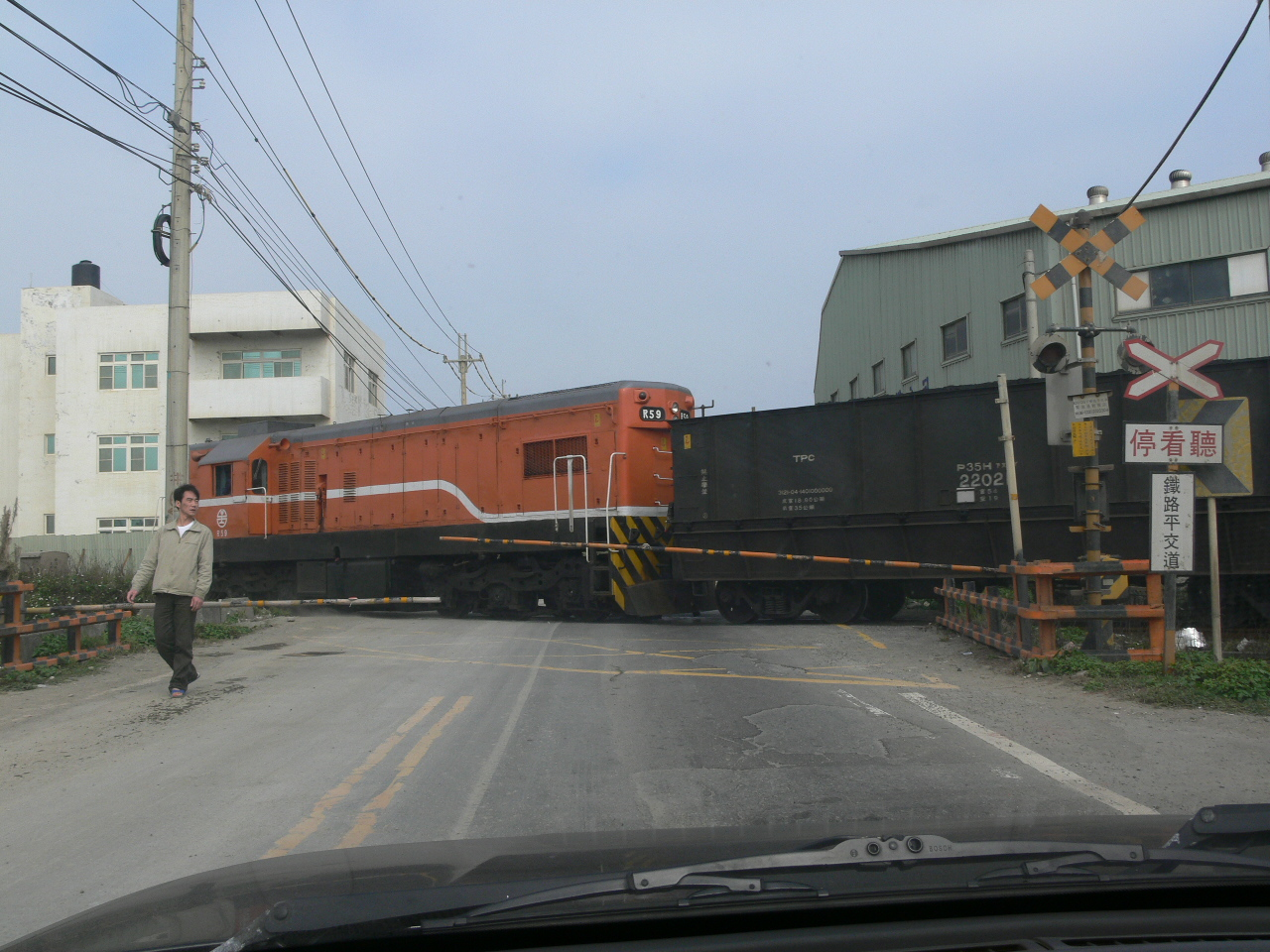 Coal train of Linkou Railroad, Taiwan Railway Administration.